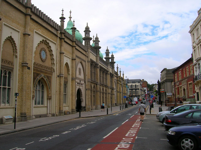 The Dome, Church Street. Head south down Jubilee Street then east down Church Street. The Dome was originally constructed as riding stables for the Pavilion between 1803-08. The old entrance is the first on the left. The building was sold to Brighton Corporation with the Pavilion by Victoria in 1850. Between 1856-64 they were let as cavalry stables and from 1867 the northern end housed the Dome Concert Hall, something it is still used for today. In fact it hosted the 1974 Eurovision Song Contest which was won that year by Abba. The southern end was shared by the city's museum and library until the latter moved out in the late 1990s to temporary accommodation. The former has expanded into the space left by the latter. Two buildings on the right deserve a mention. The red bricked building is the former County Court built in 1869 on the site of an old infantry barracks and remained in use until 1967 when it moved to new premises. For a while it was a store for the library but is now empty. The grey building beyond it was erected in 1925 as a Gas Showroom becoming the Music Library after the war and now it too is empty. Click on the link to take you to the next page.